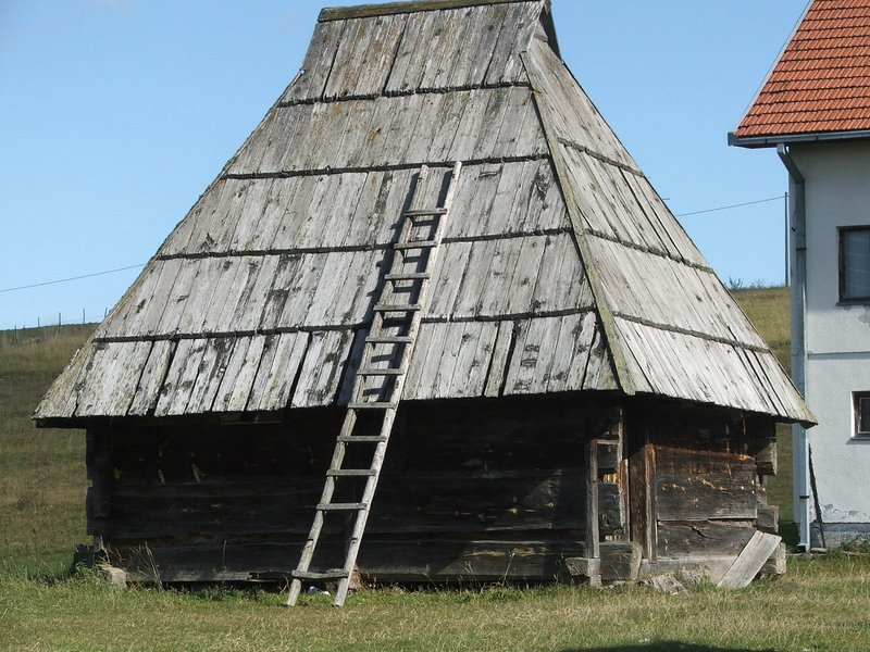 Old house at Jabuka near Prijepolje, Serbia